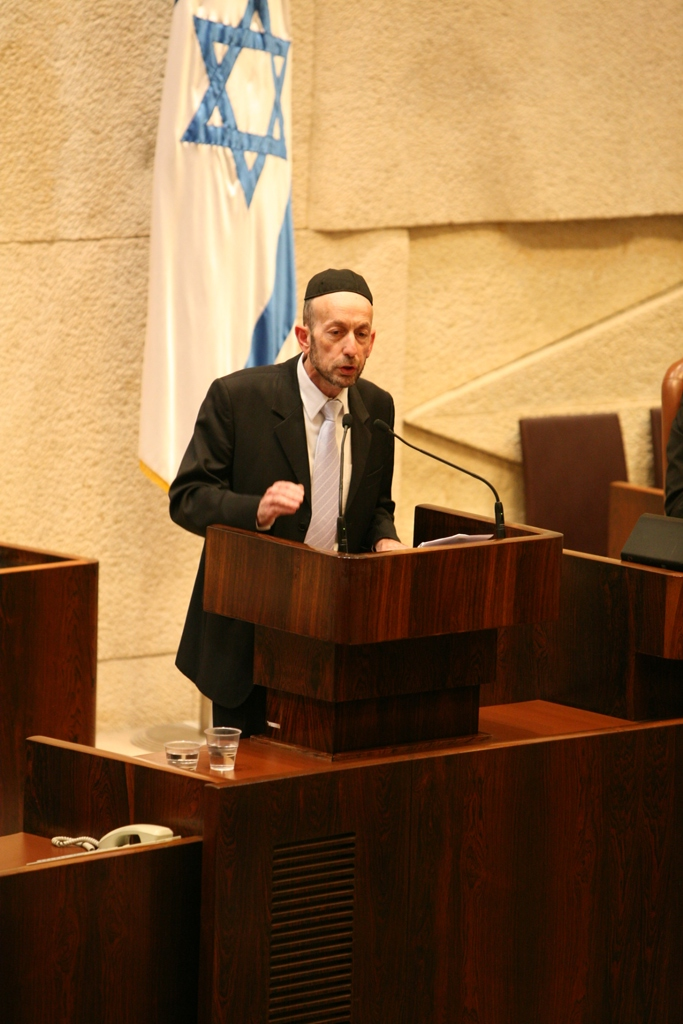 Rabbi Yisrael Meir Uri Maklev (Hebrew: ישראל מאיר אורי מקלב, born 10 January 1957) is an Israeli politician and member of the Knesset for the Haredi party Degel HaTorah, which together with Agudat Yisrael forms the United Torah Judaism list.